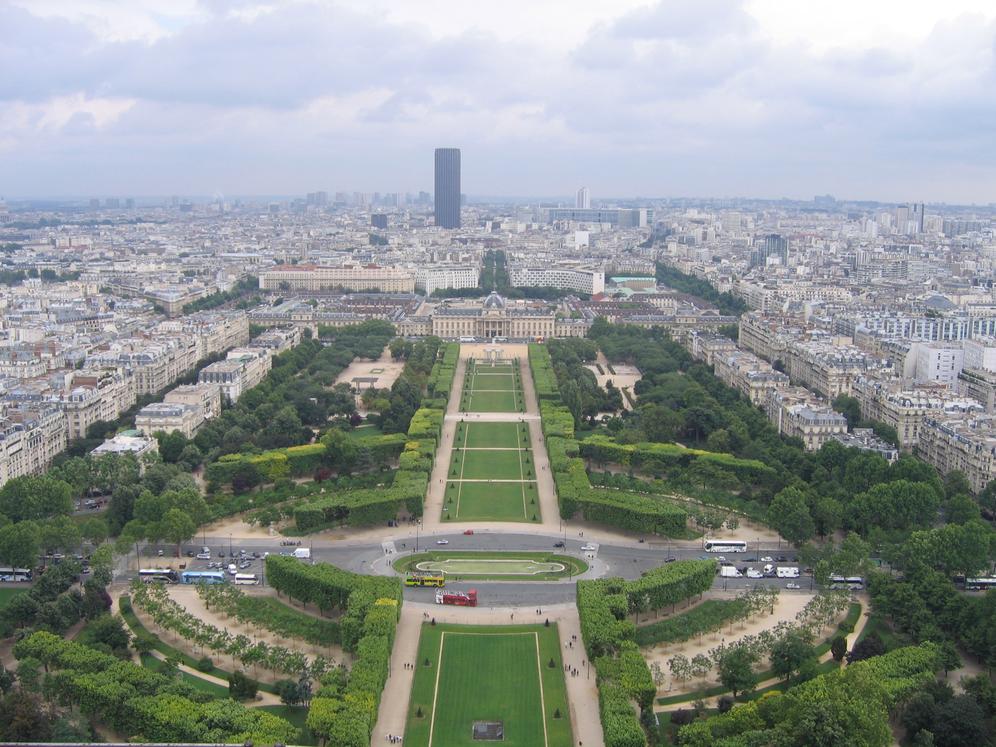 View of Champ-de-Mars from the Eiffel Tower